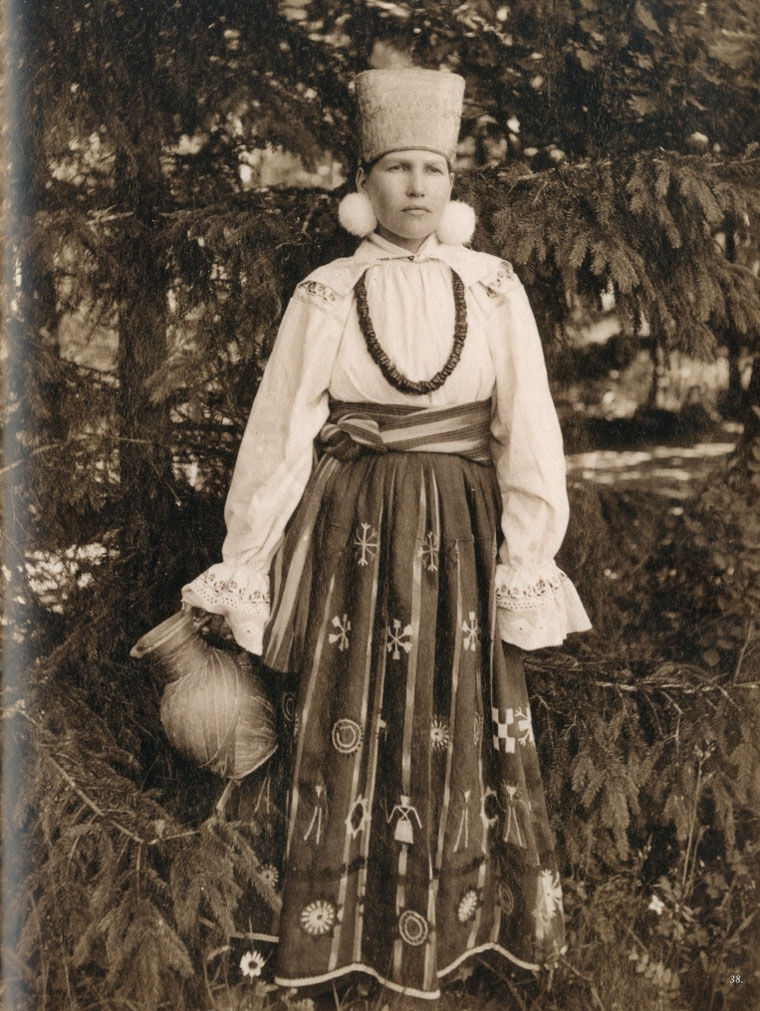 Peasants from Kursk Governorate. 1900